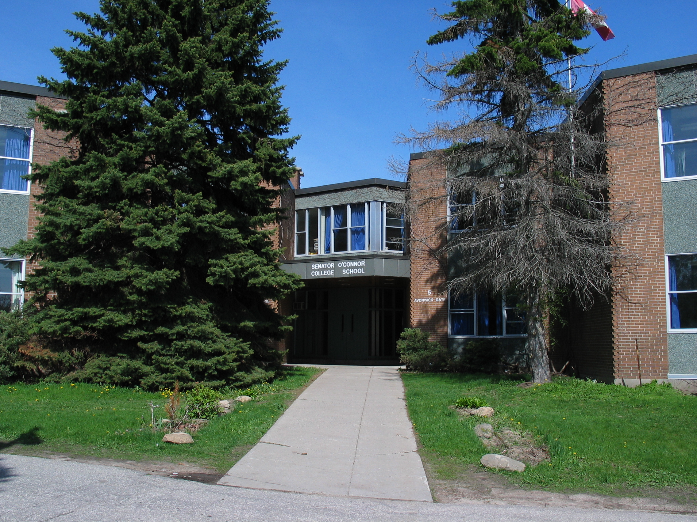 A view of Senator O'Connor CS from the old campus on Avonwick, May 2004